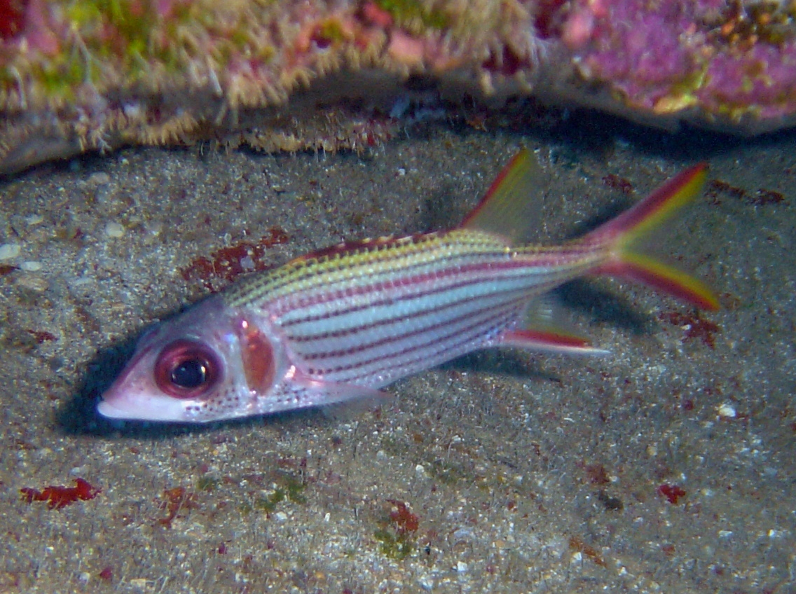 Spotfin squirrelfish (Neoniphon sammara) Image ID: reef0966, NOAA's Coral Kingdom Collection Location: Guam, Mariana Islands